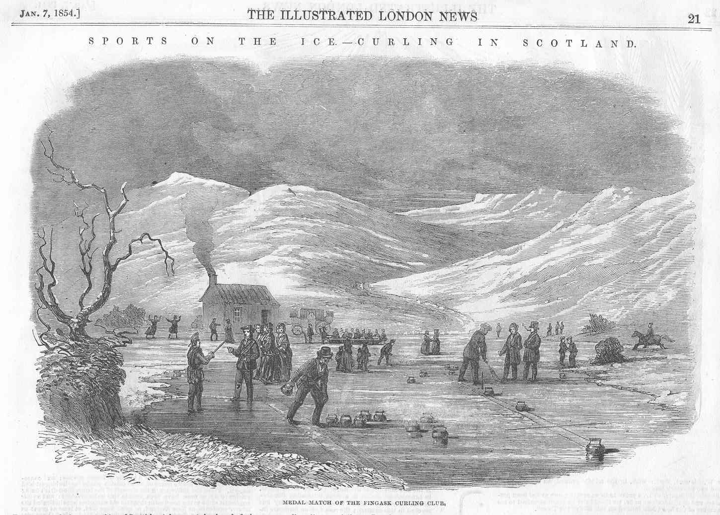 scan of a photocopy of original by R. de Salis, of a page from the Illustrated London News, of January 1854. Picture shows a curling medal match at Fingask Castle, Perthshire, Scotland. The engraving was taken from a sketch by H. H. Milne dated 18 February 1853, drawn from memory of the medal match the day before, 17 February 1853. Rodolph 18:35, 12 May 2007 (UTC) Other versions: 150px